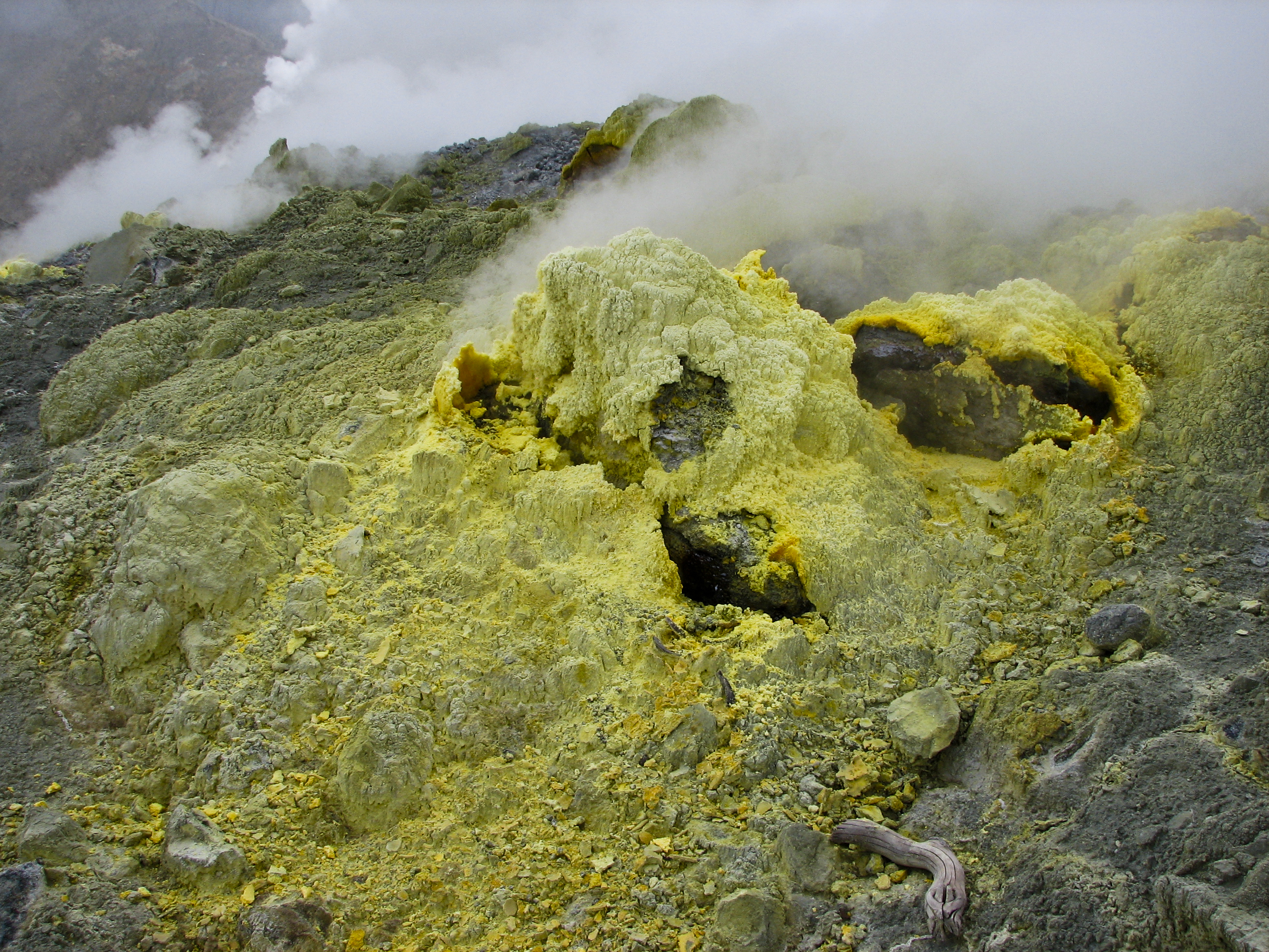 Sulfur